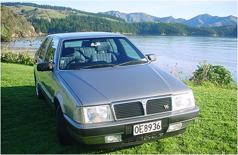 Lancia Thema taken by Ross Ferguson, used with permission